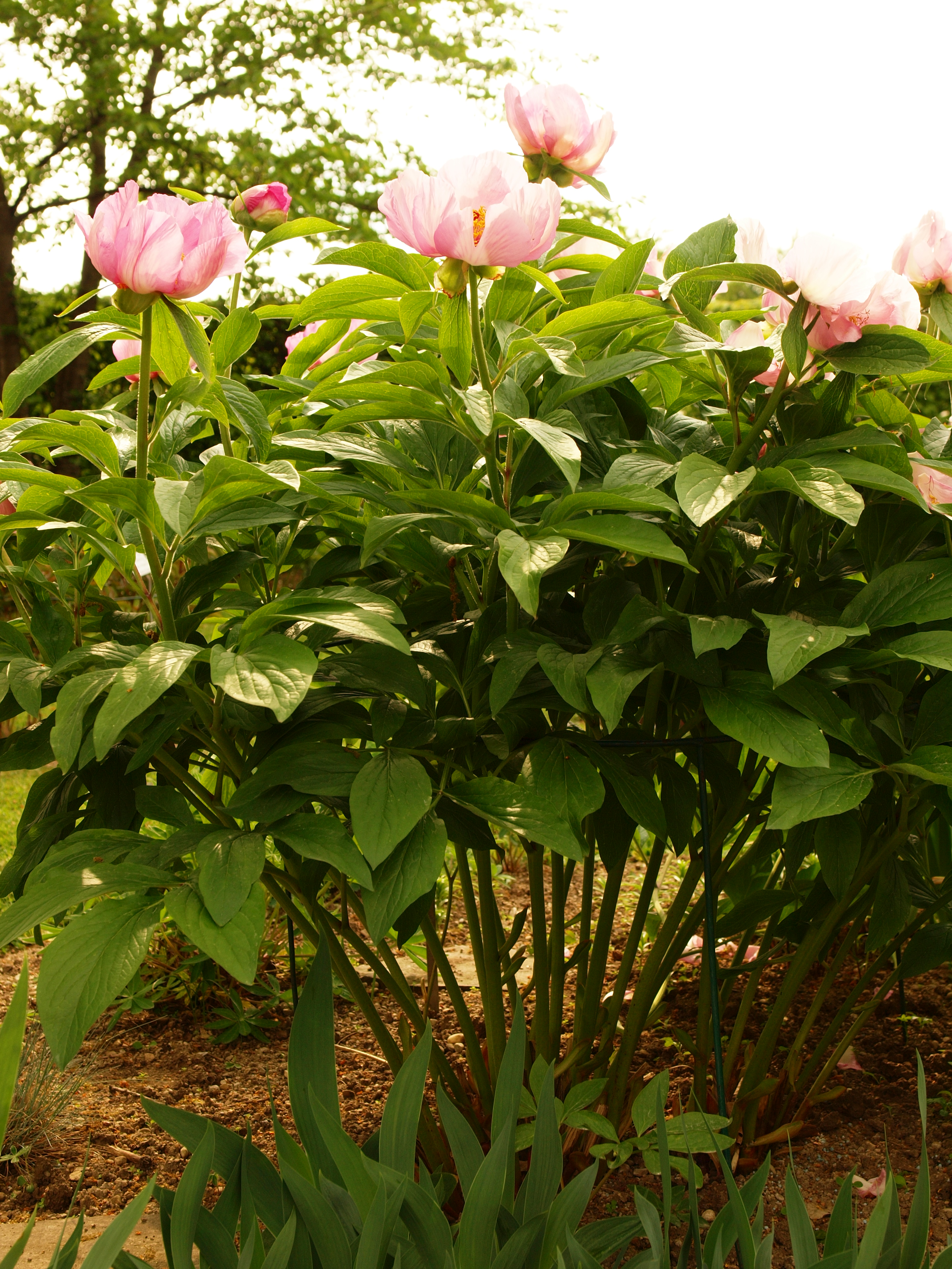 Paeonia lactiflora Hybride